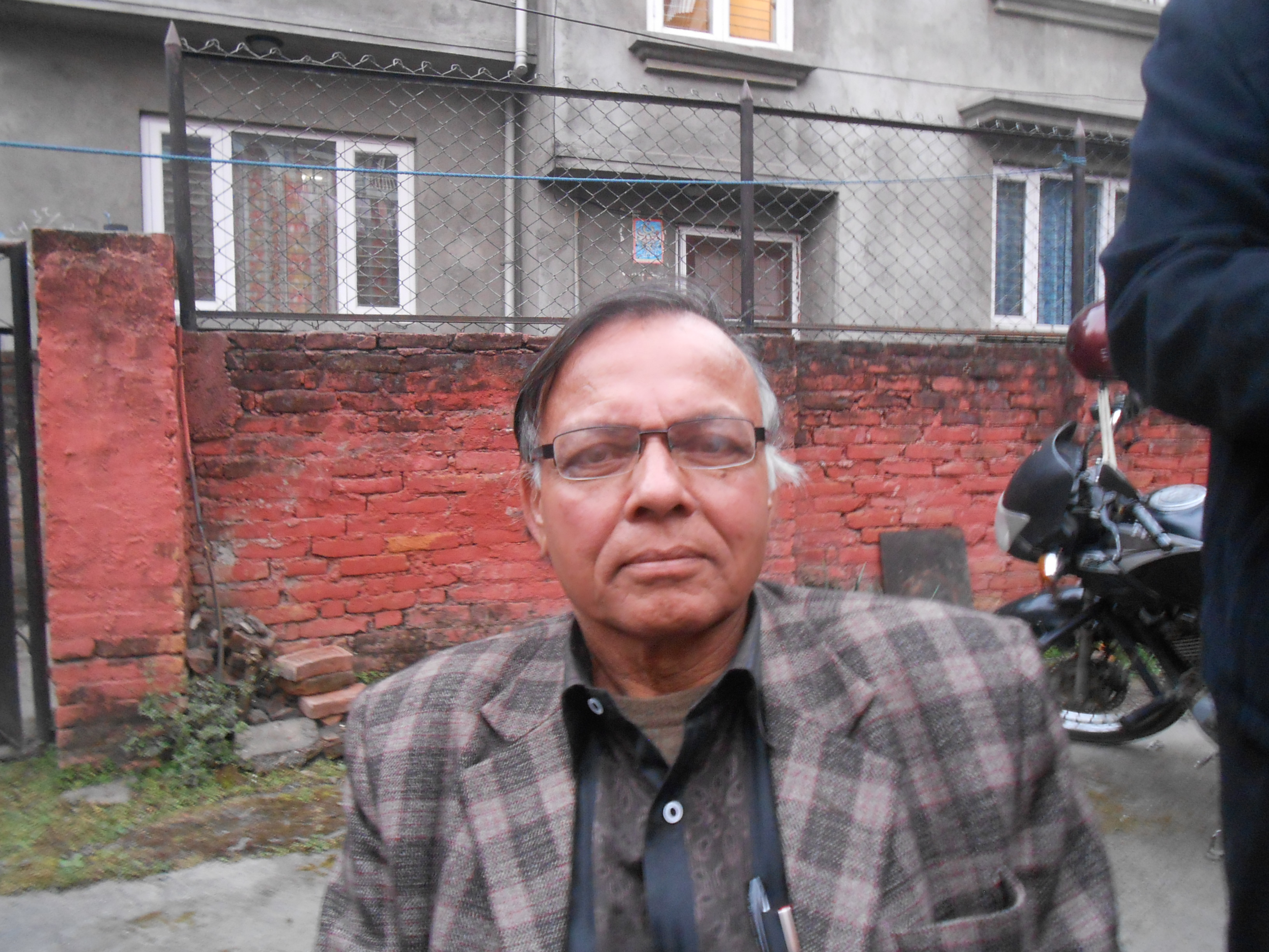 Maithili Writer Ram Bharos Kapri 'Bhramar'